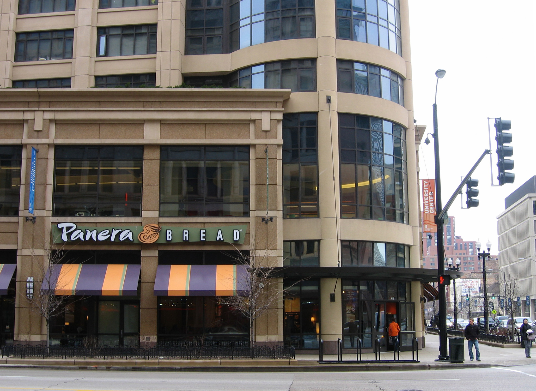 Panera Bread, at E. Congress and S. State, in the South Loop of Chicago.